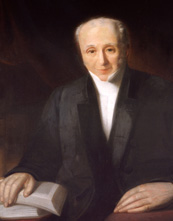 Painting of Franc Sadlier of Trinity College Dublin By John Henry Nelson Oil on canvas